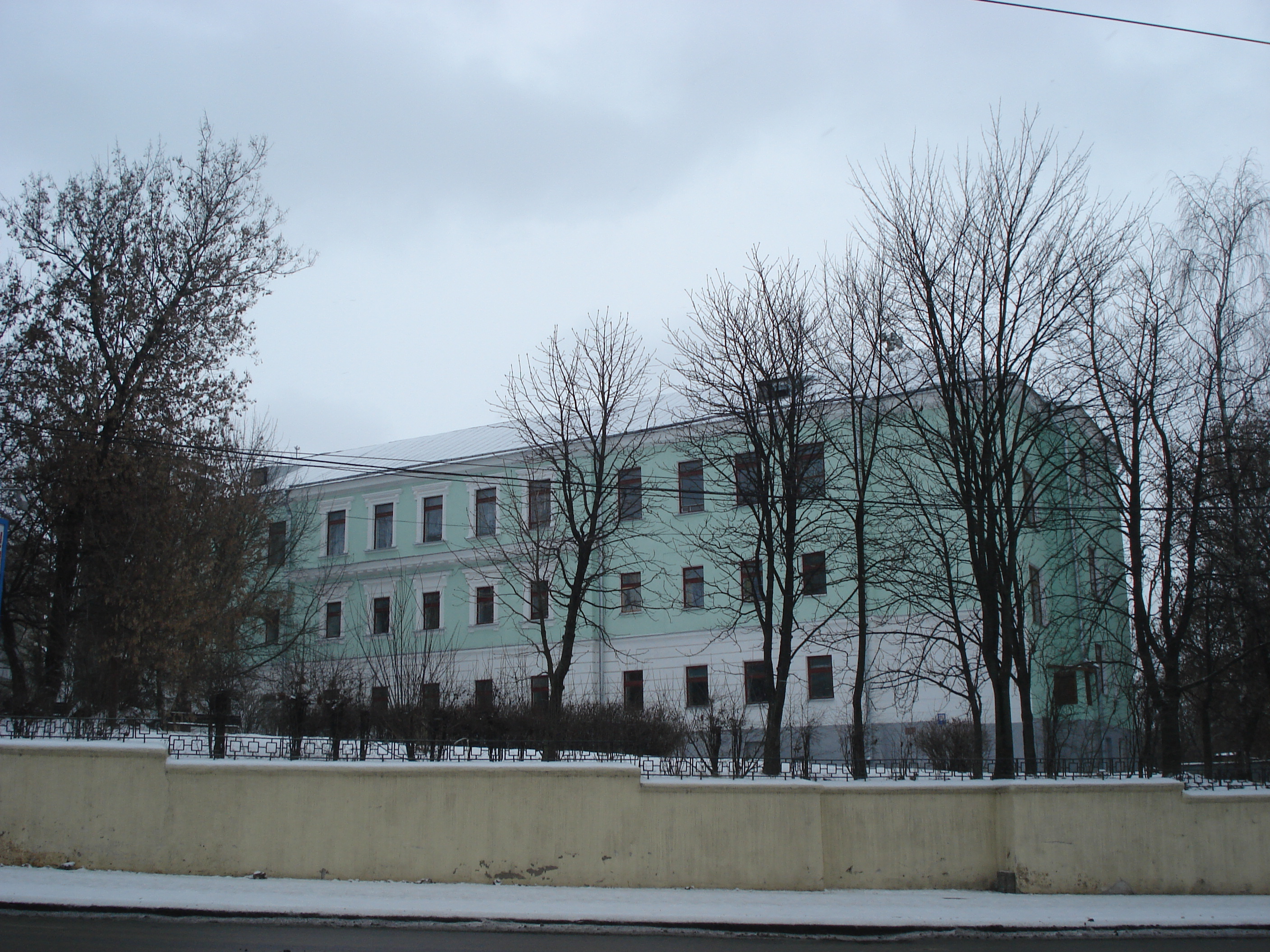 Traetskaye suburb.